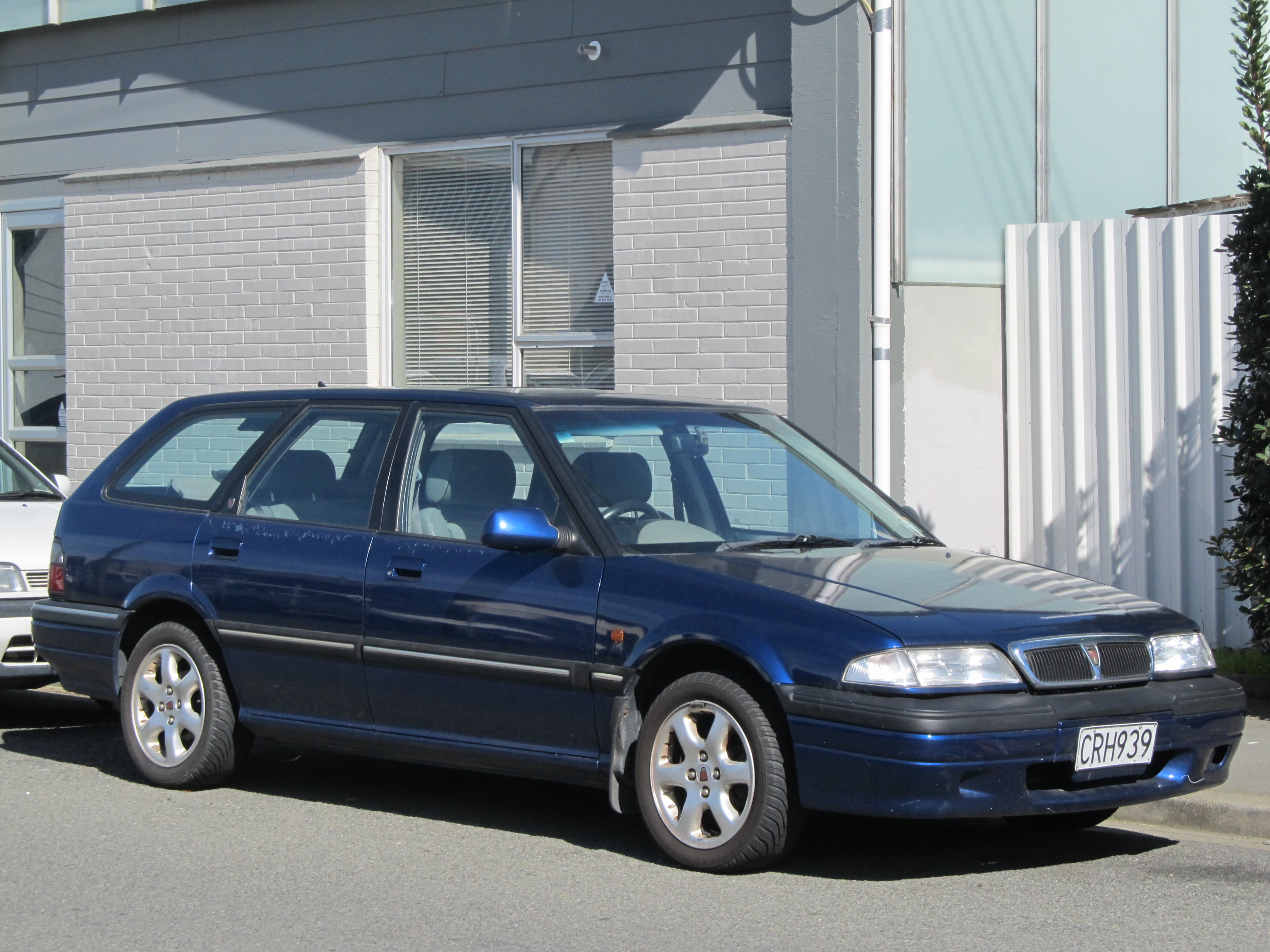 Rover 400 Tourer (Japanese market)